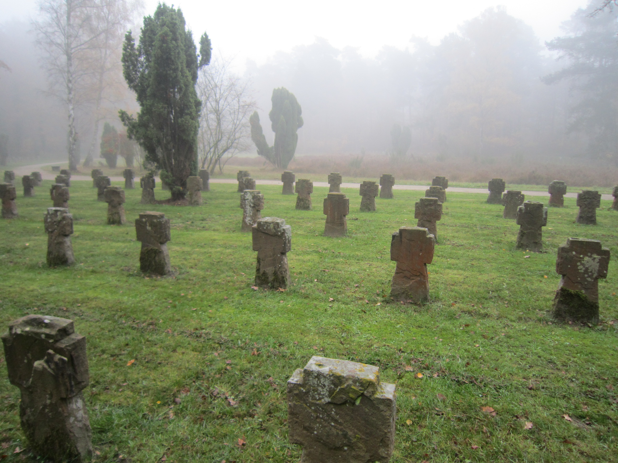 Forestal Cemetery Lauheide near Münster at the National Day of Mourning (German department)